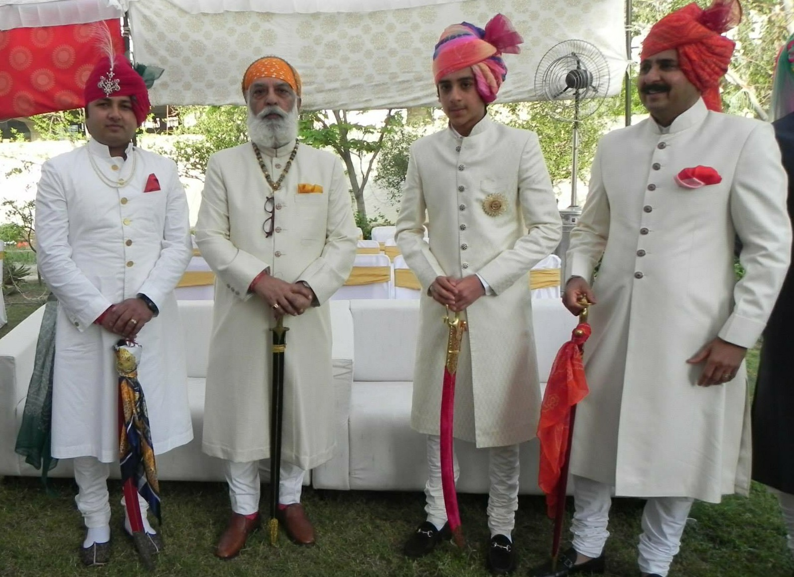 Guests including Arvind Singh Mewar(second from left) at a Rajput wedding wearing an Achkan Sherwani in Rajasthan, India